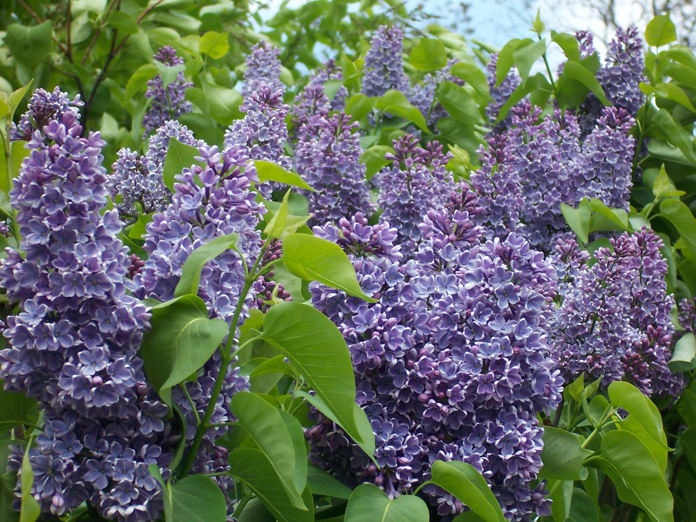 Syringa vulgaris (common Lilac) cultivar "Flower City", at Highland Park in Rochester, New York. The information plaque next to this plant reads: "This variety was developed at Highland Park by horticulturist Richard Finicchia. It is a unique variety that has cupped, dark violet-purple florets with a silvery reverse. Some florets display radial doubling; an increase to 8, 10 or more petals. Its parent is 'Rochester', also a Highland Park development."